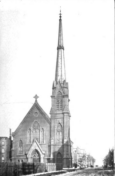 First Presbyterian Church of Chicago, Indiana Avenue and 21st Street, (1887)